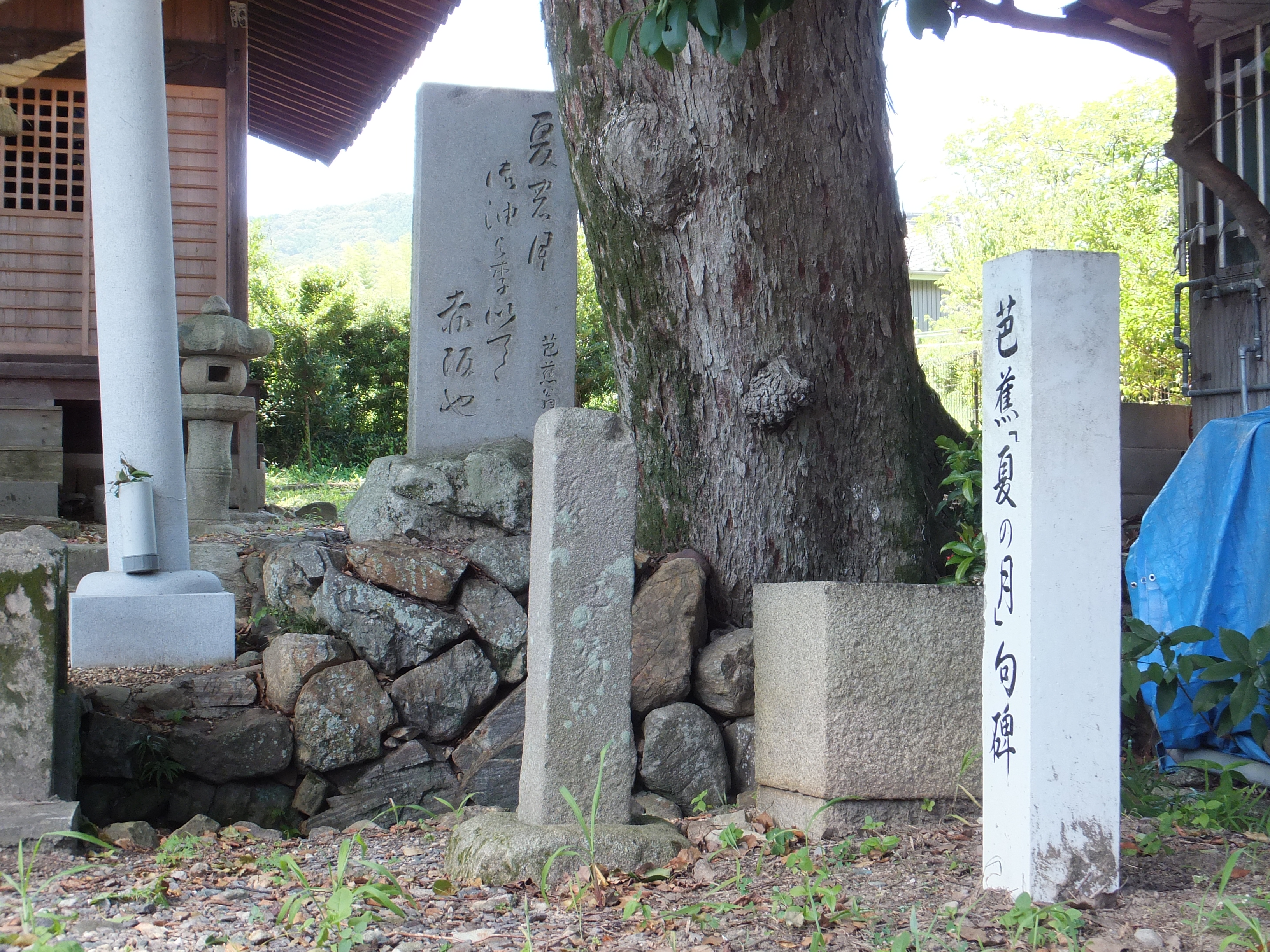 Stone tablets inscribed with Matsuo Basho's haiku, at Sekigawa Jinja (関川神社), Sekigawa, Akasaka-cho, Toyokawa, Aichi, Japan